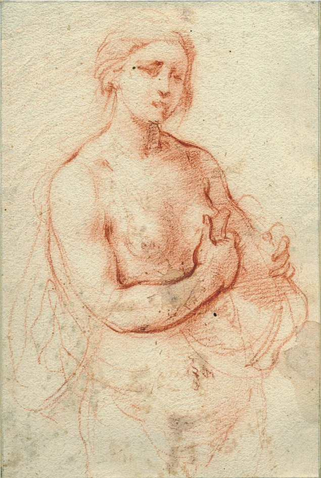 Study of a partly undressed young woman holding an object